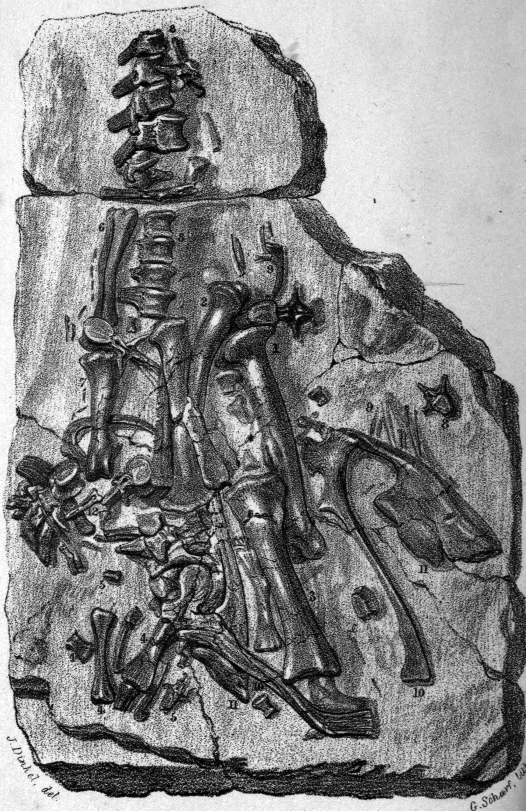 Fossil Mantellodon (formerly Iguanodon) remains found in Maidstone in 1840.